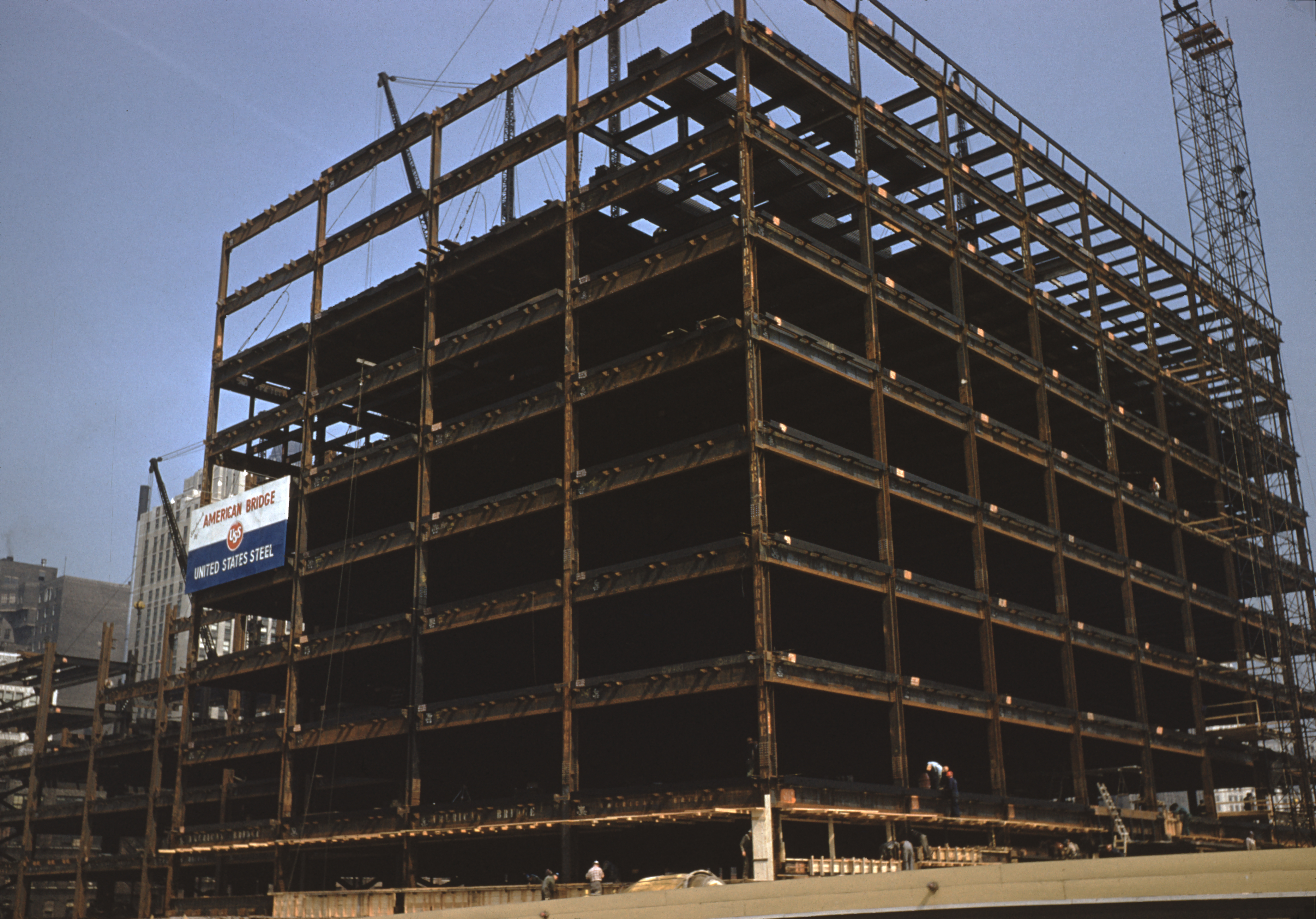 Photography by Victor Albert Grigas (1919-2017)